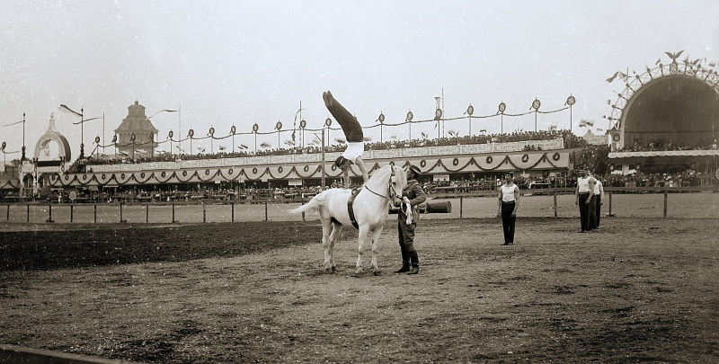 Jumping over horse on Sokol slet in Prague 1901 Author: Šechtl and Voseček Uploaded with approval of inheritors of the copyright